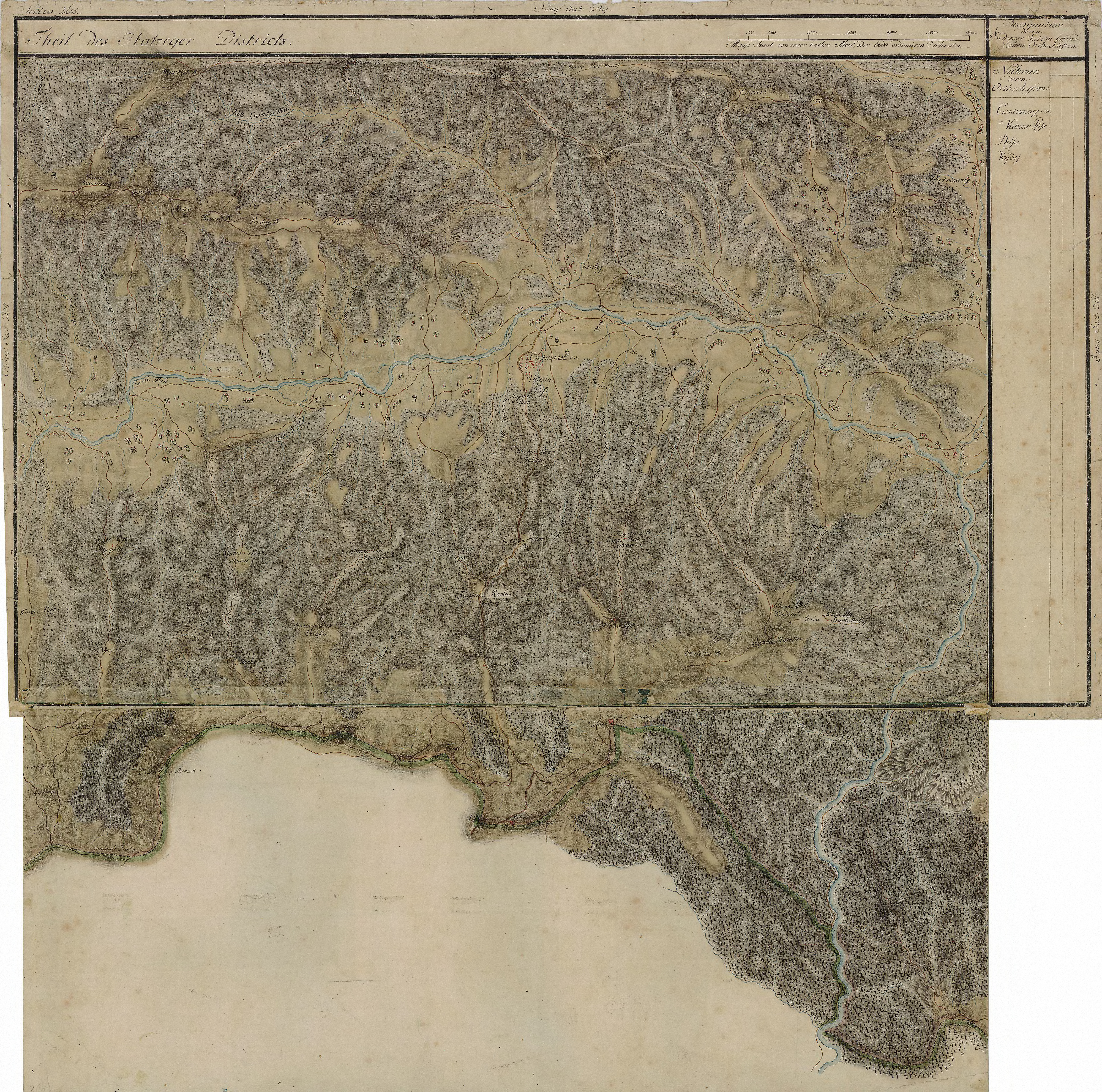 Grand Duchy of Transylvania, 1769-1773. Josephinische Landaufnahme pg.265